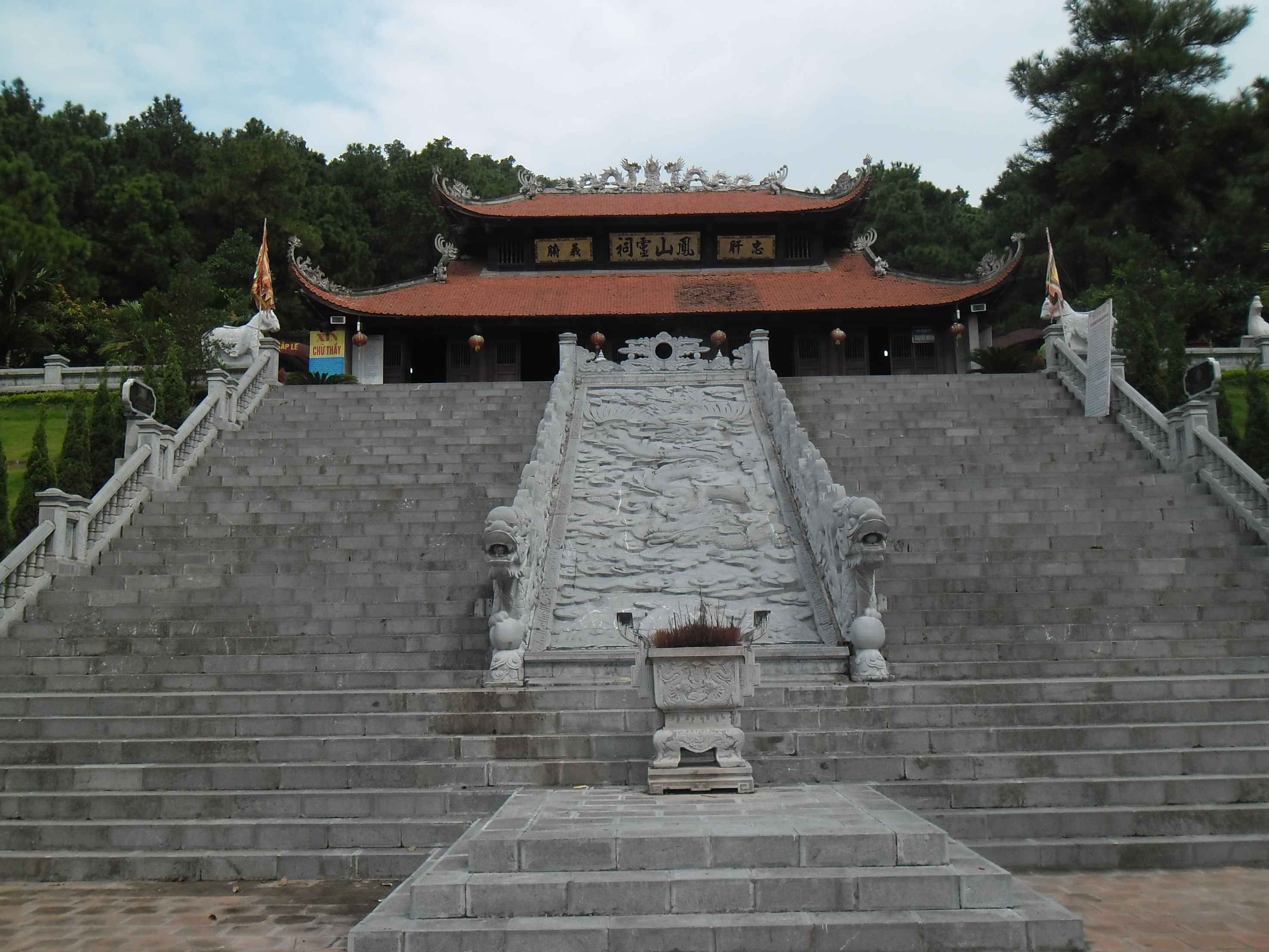 Chu Van An Temple on Mount Phuong Hoang (Fenghuang - Phoenix), Chi Linh, Hai Duong, Viet NamTiếng Việt: Đền thờ Chu Văn An, trên núi Phượng Hoàng, Phường Văn An, thành phố Chí Linh, tỉnh Hải Dương